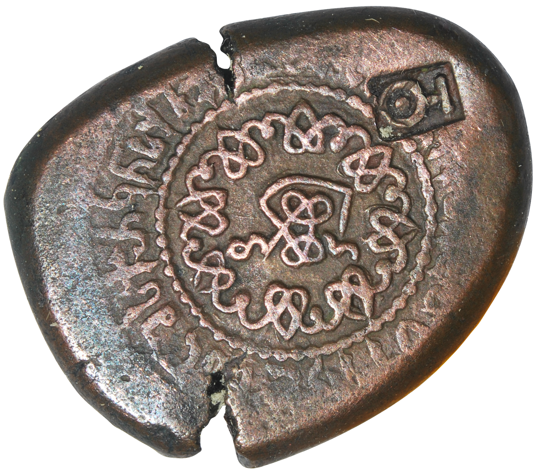 Coin of Queen Tamar of Georgia, 1187 AD.